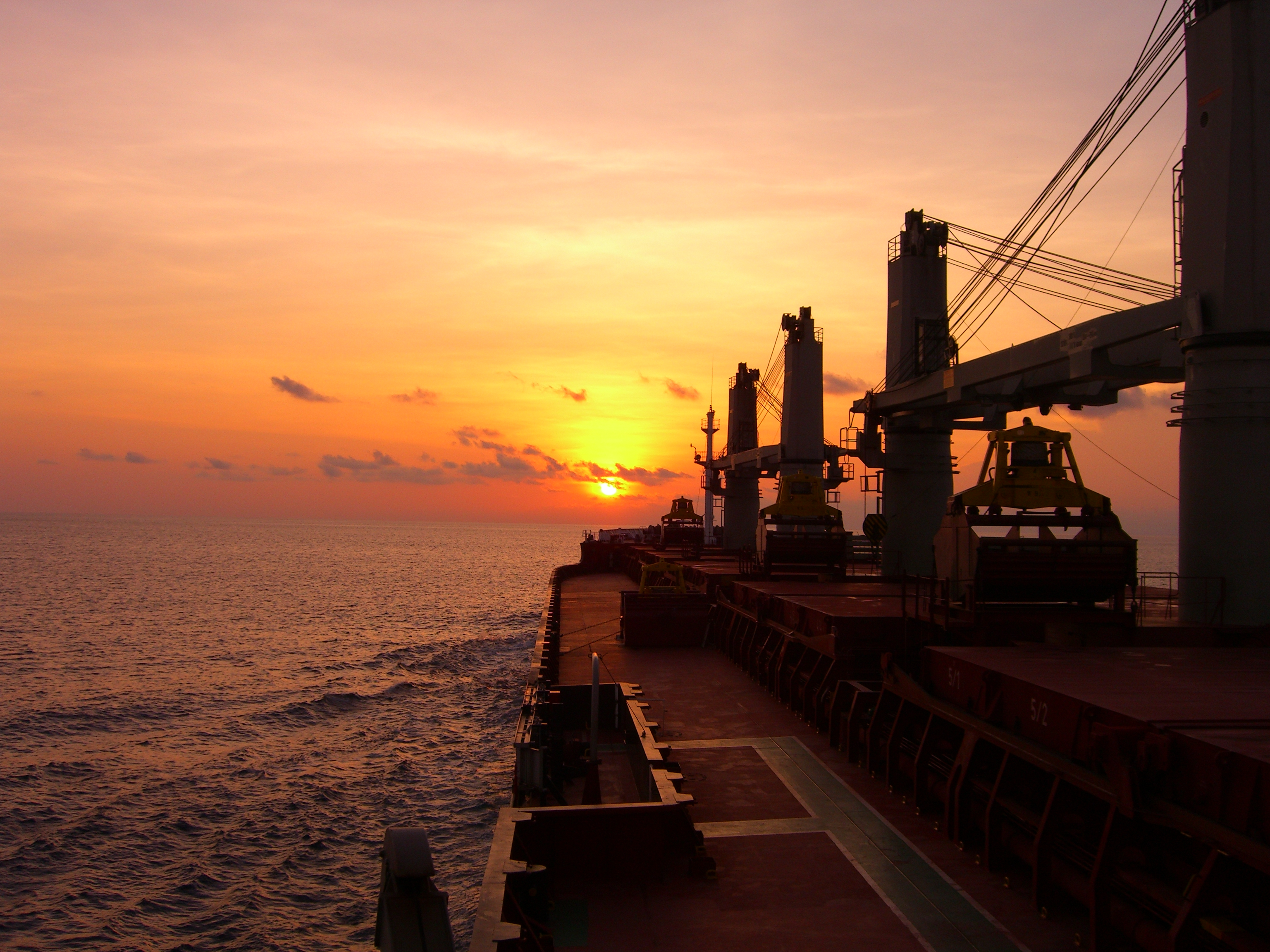 Orientor 2 Flag: Luxembourg Call Sign: LXOZ IMO number: 9259848 MMSI: 253052000